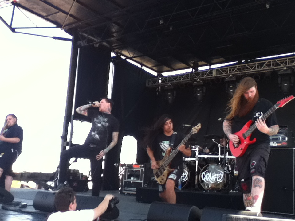 Extreme metal band Carnifex playing at Las Vegas' Extreme Thing festival.